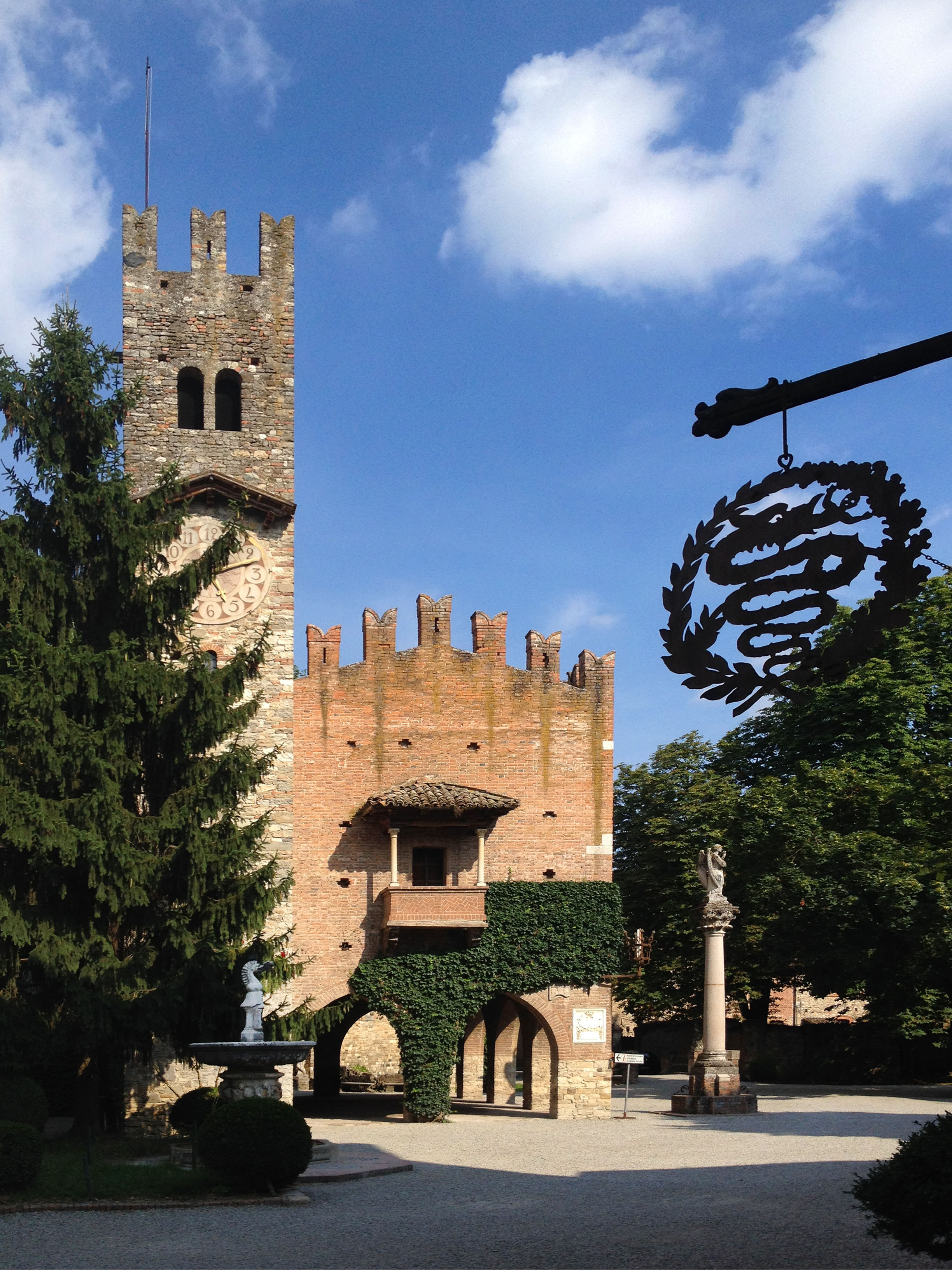 Grazzano Visconti